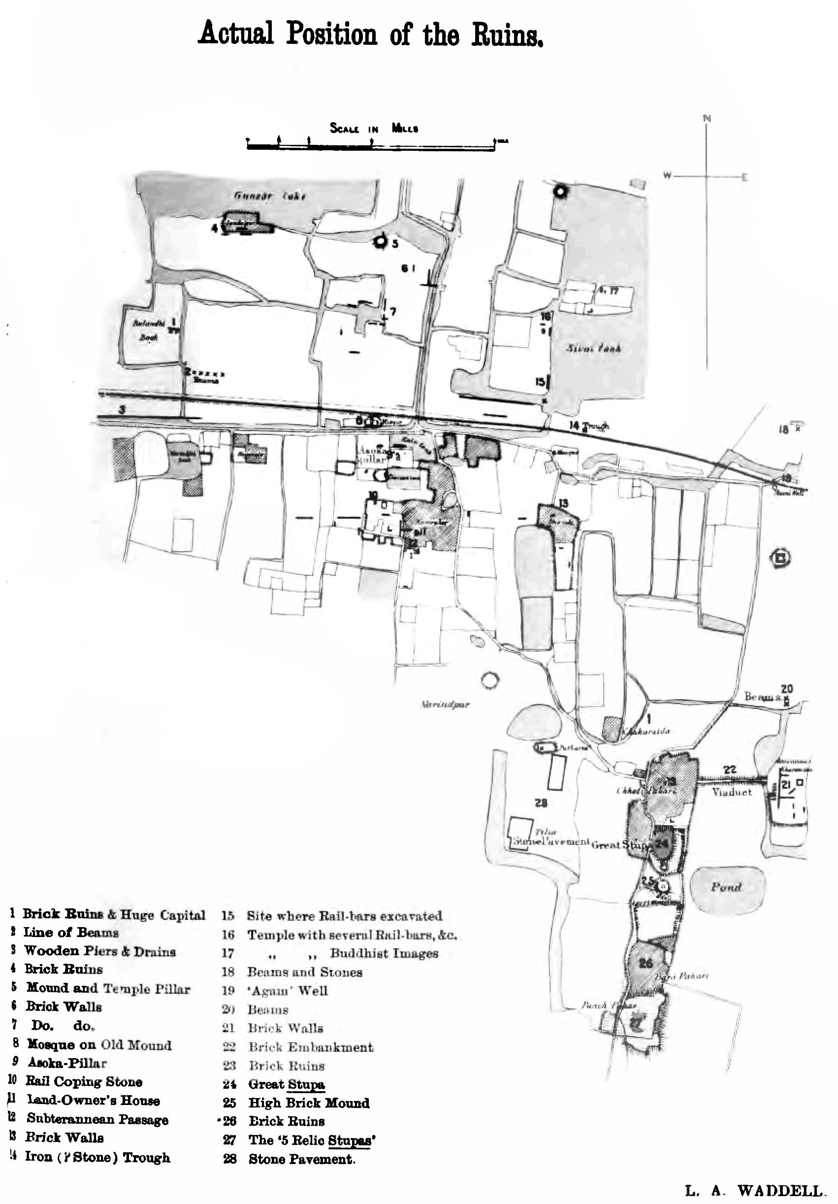 1895 excavation plan at Pataliputra